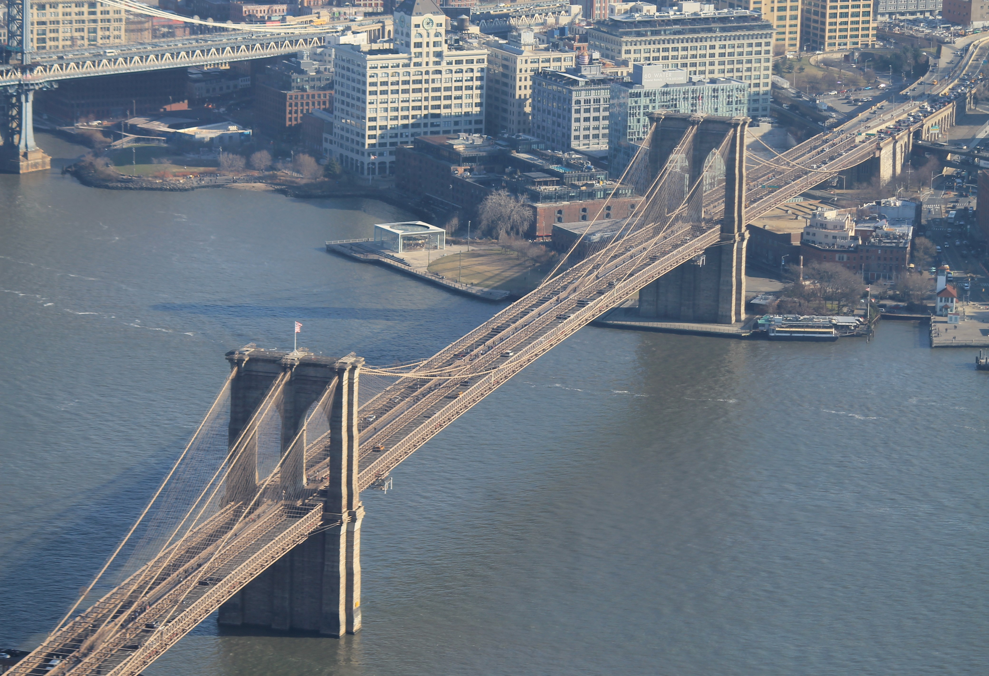 This is a photo of the Brooklyn Bridge seen from the One World Trade Center Skypod observation deck.